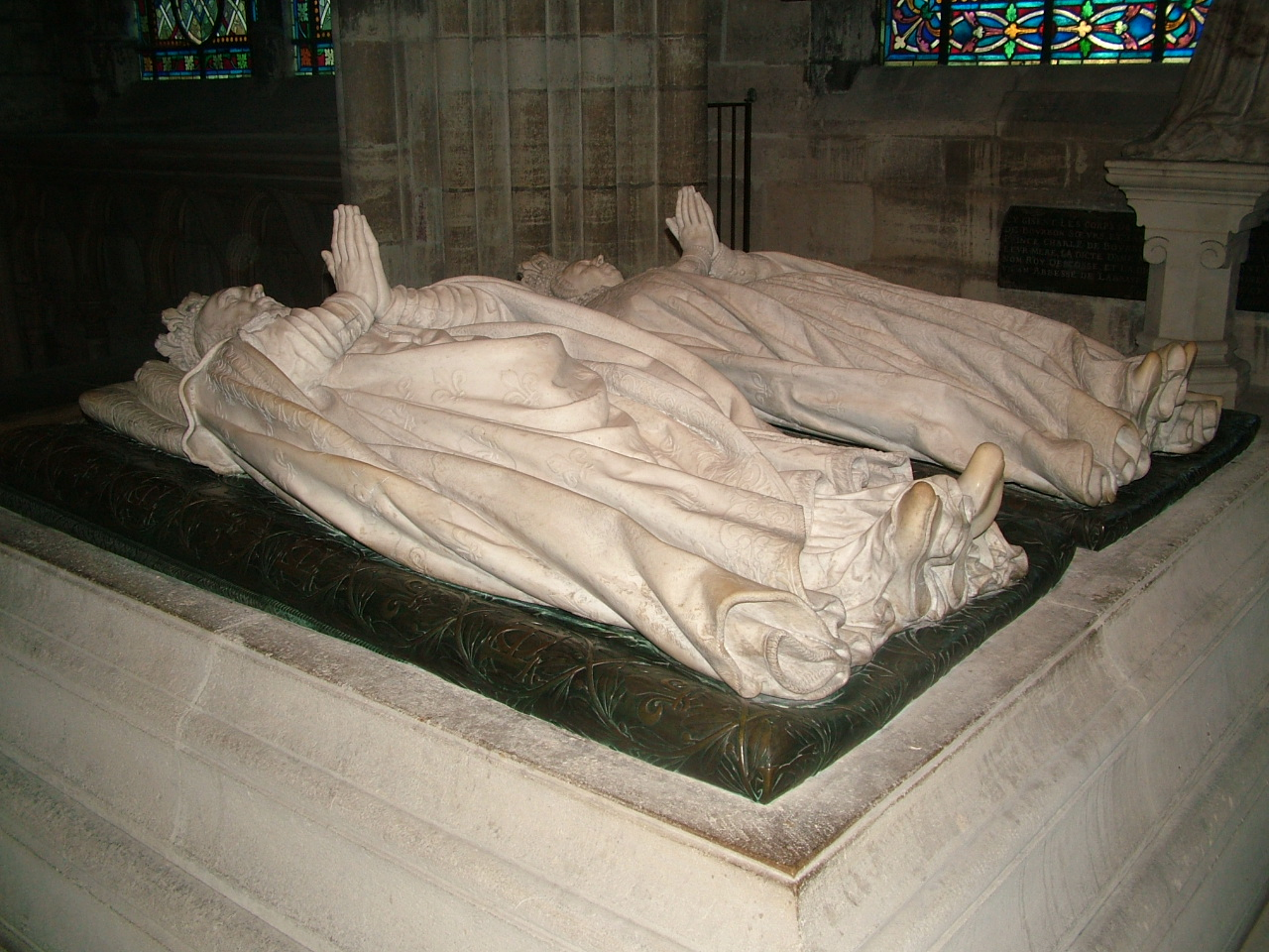 Effigies of Catherine de' Medici and Henry II in coronation vestments (not tombs)